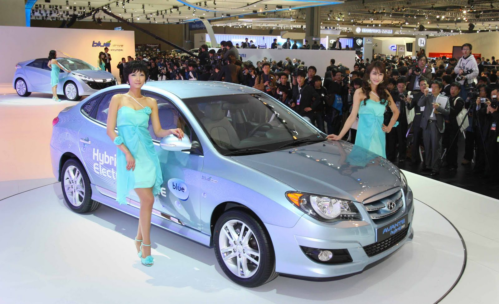 Hyundai at Seoul Motor Show